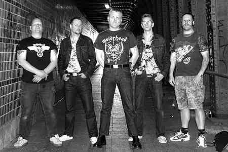 Legendary German Oi!-Band SpringtOifel from Mainz/Germany